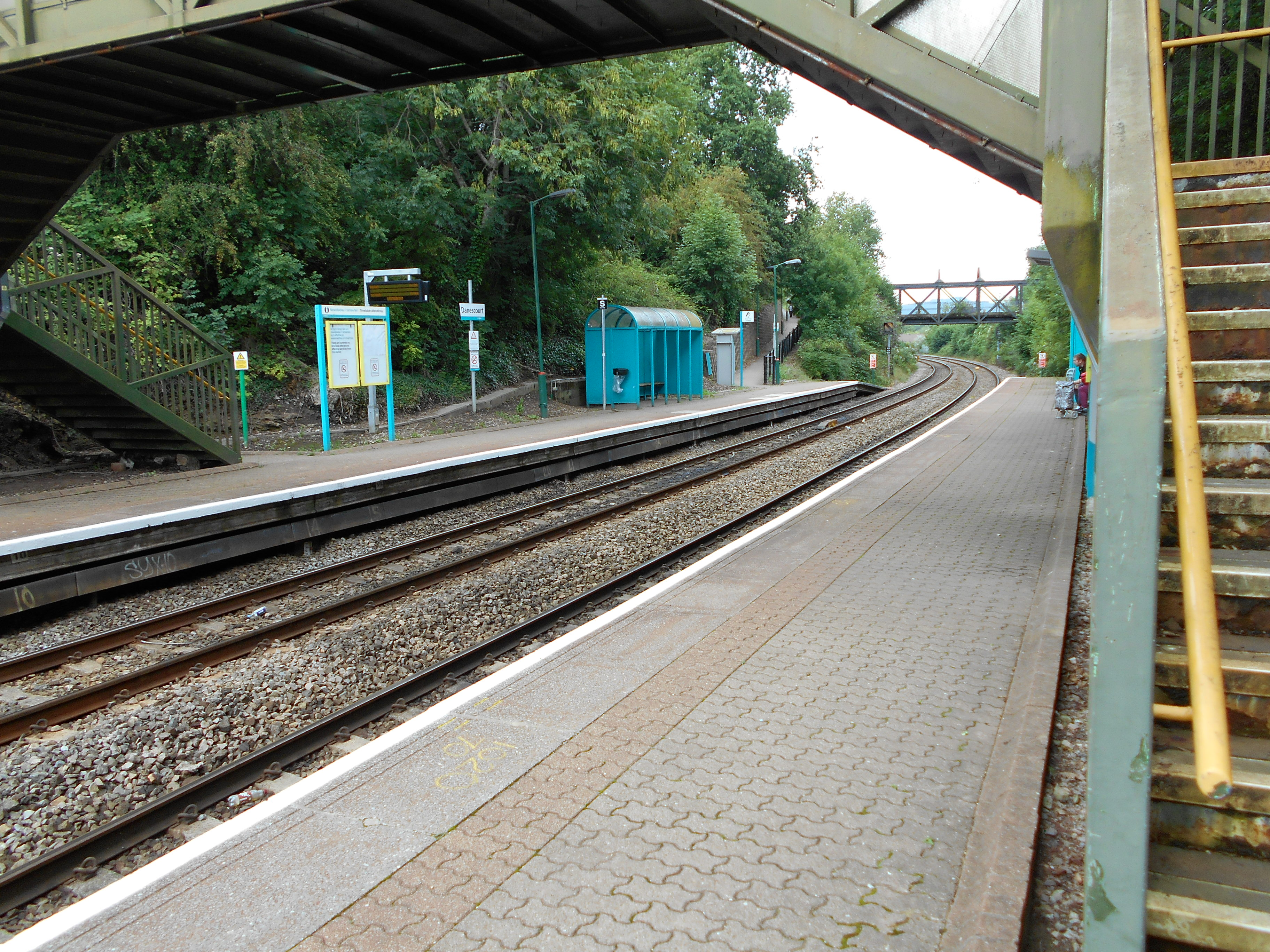 Danescourt railway station, August 2015